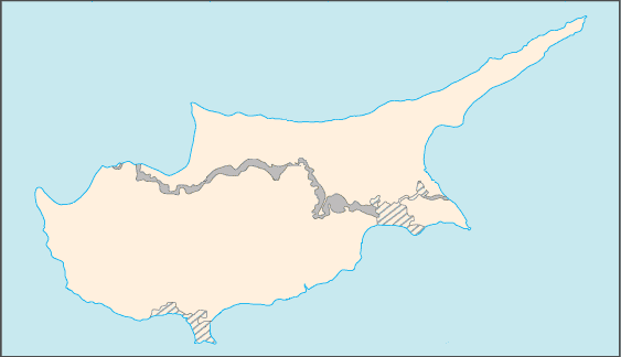 Blank map of Cyprus